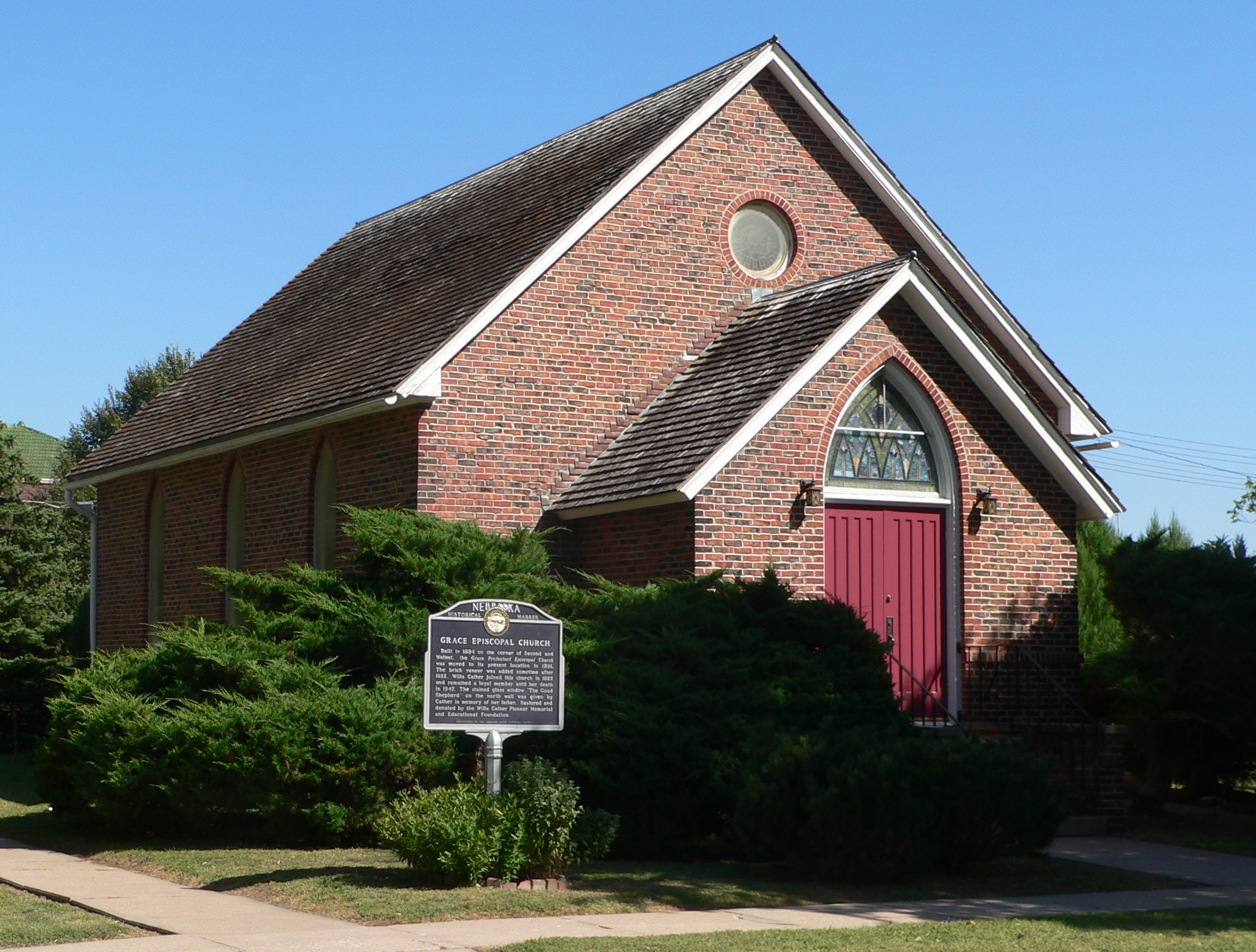 Grace Protestant Episcopal Church, 546 N. Cedar Street in Red Cloud, Nebraska; seen from the northwest. The 1883 Gothic Revival church is listed in the National Register of Historic Places.